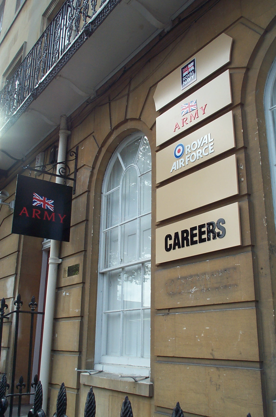 A British Armed Forces recruitment centre in Oxford, 2005-10-22. Copyright © 2005 Kaihsu Tai.